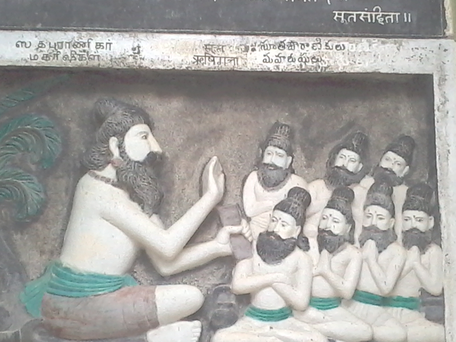 Sage Suta Pauranika alias Saudi teach epic Mahabharata to other sages in naimisaranya